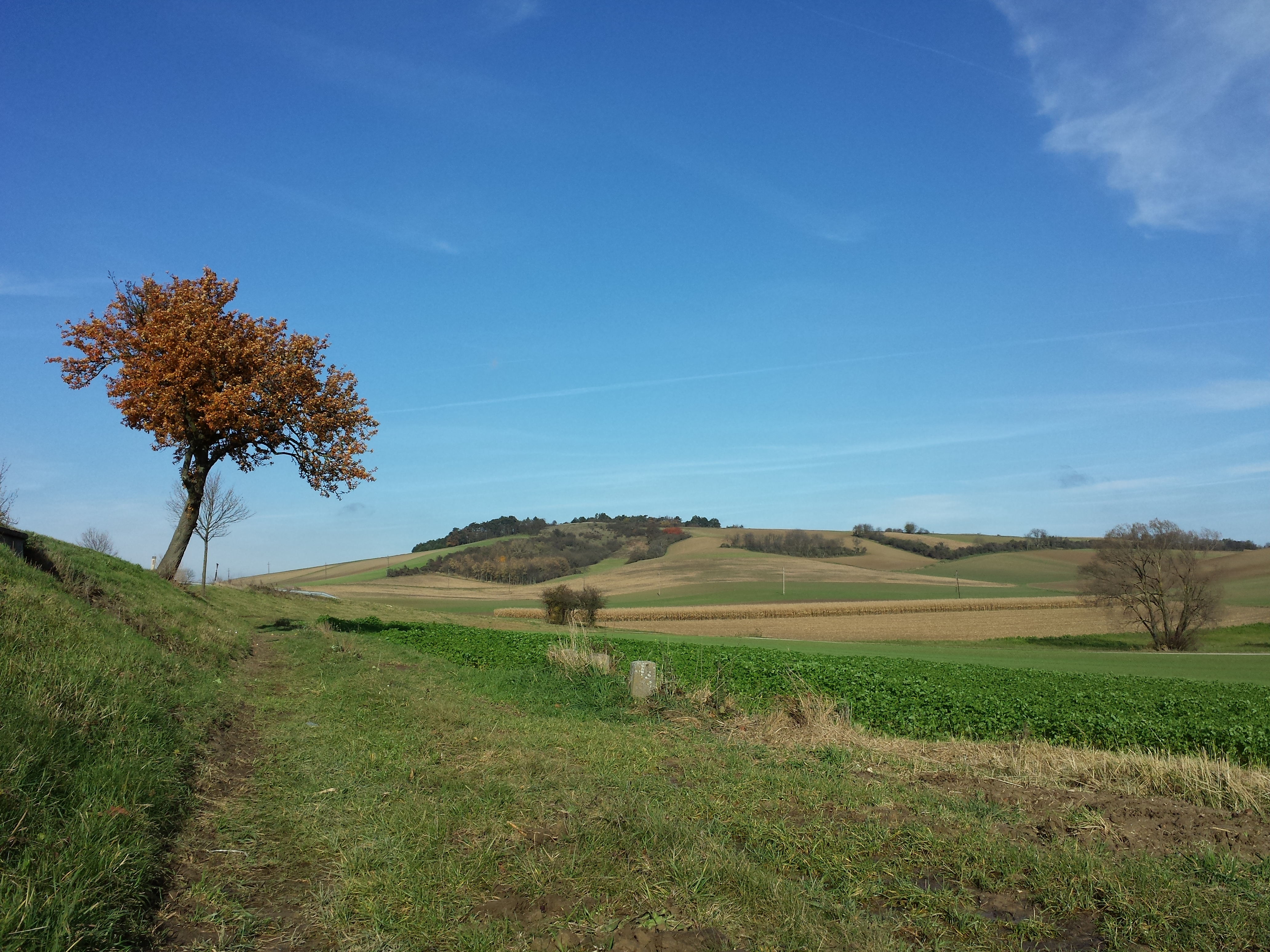 Gebmannsberg, district Korneuburg, Lower Austria - ca. 340 m a.s.l. Seen from the South